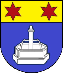 Coat of arms of Fontenais, Canton of Jura, Switzerland